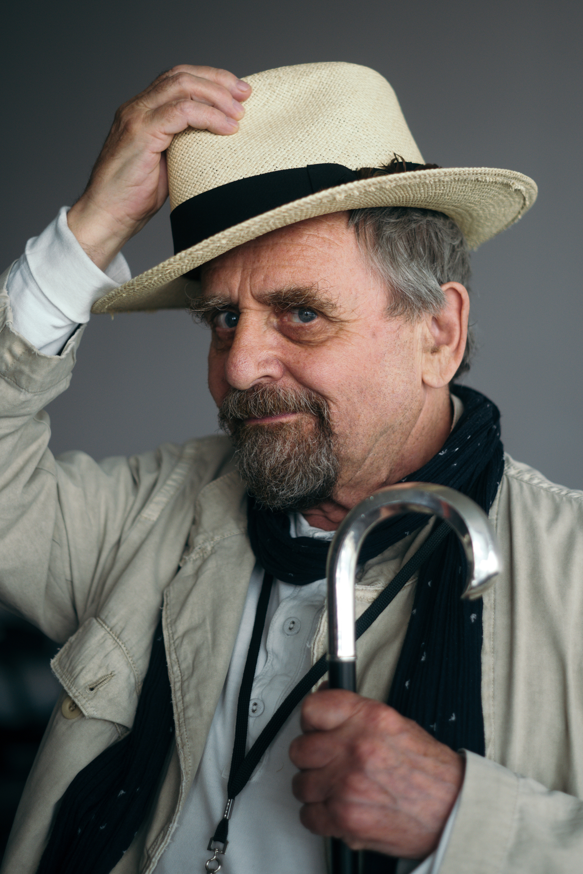 Portrait of Actor Sylvester McCoy in 2018, at MCM London Comic Con.